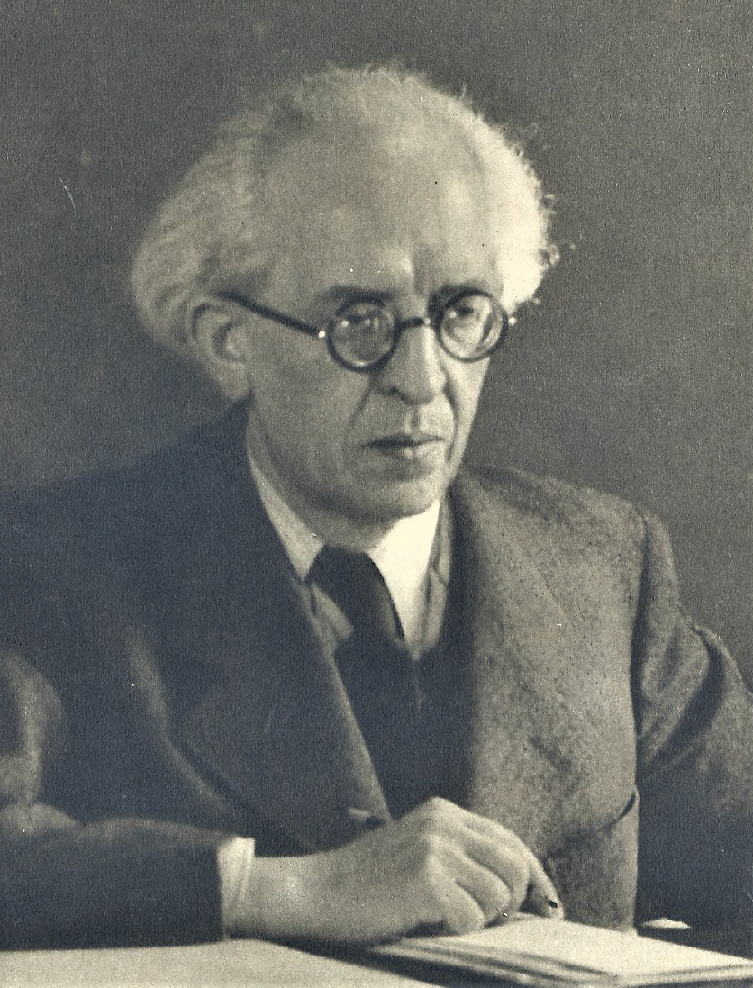 Picture of Tuka in 1941